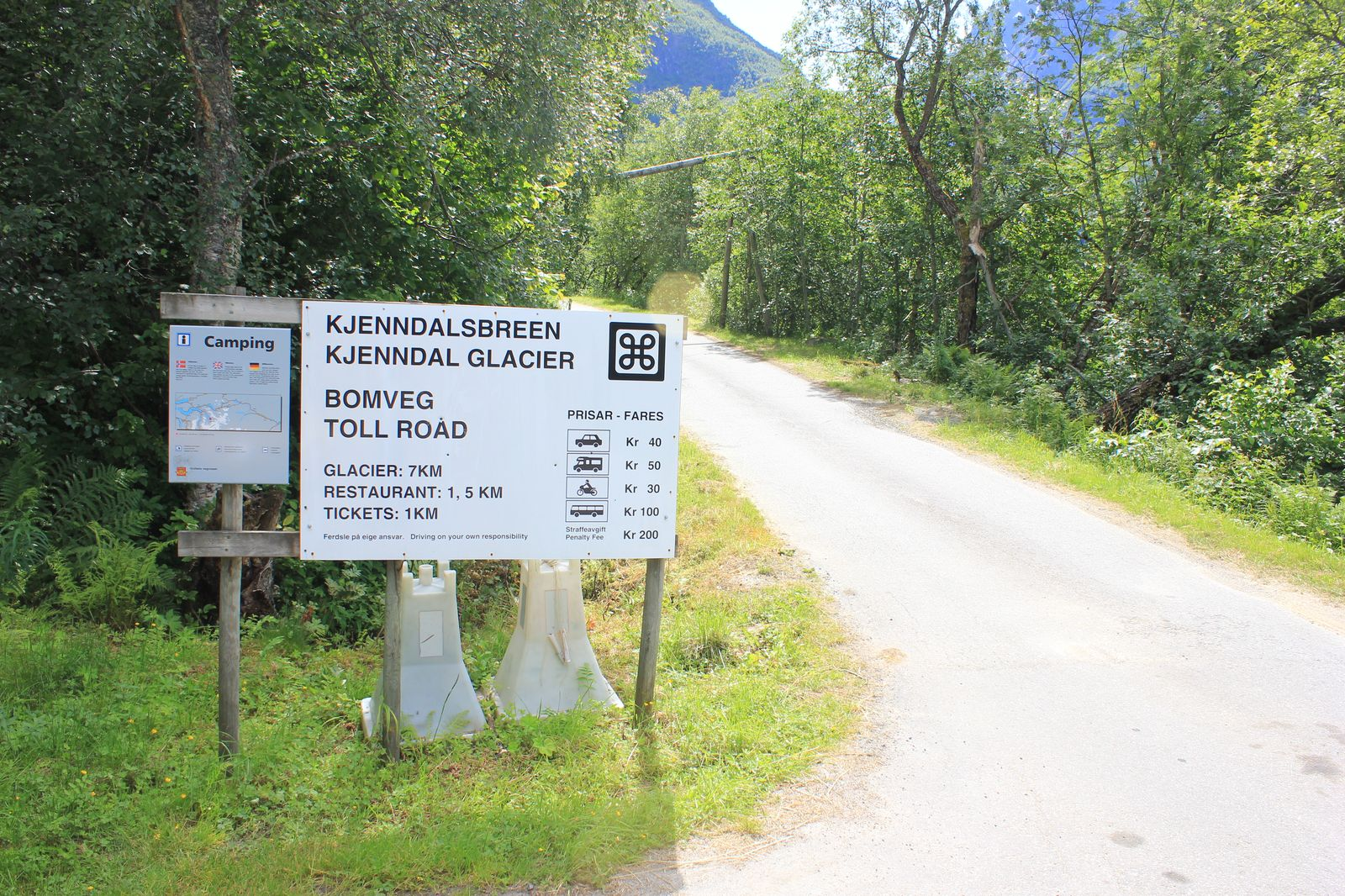 The tollroad to Kjenndalsbreen glacier